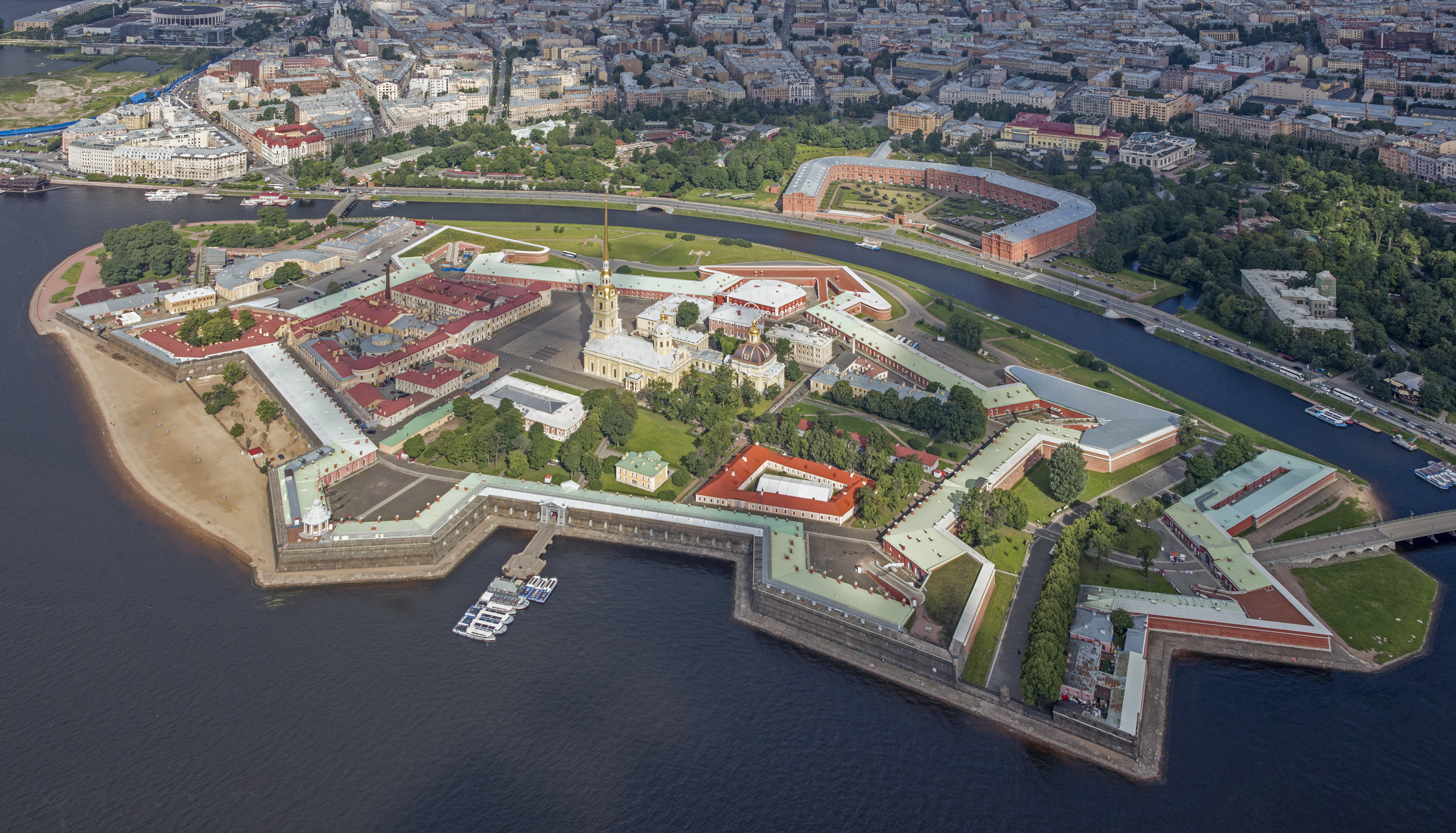 Aerial view of Peter and Paul Fortress on Zayachy Island, Saint Petersburg, Russia. To the north, across the Kronverksky Strait is the Kronverk, including the Artillery Museum.